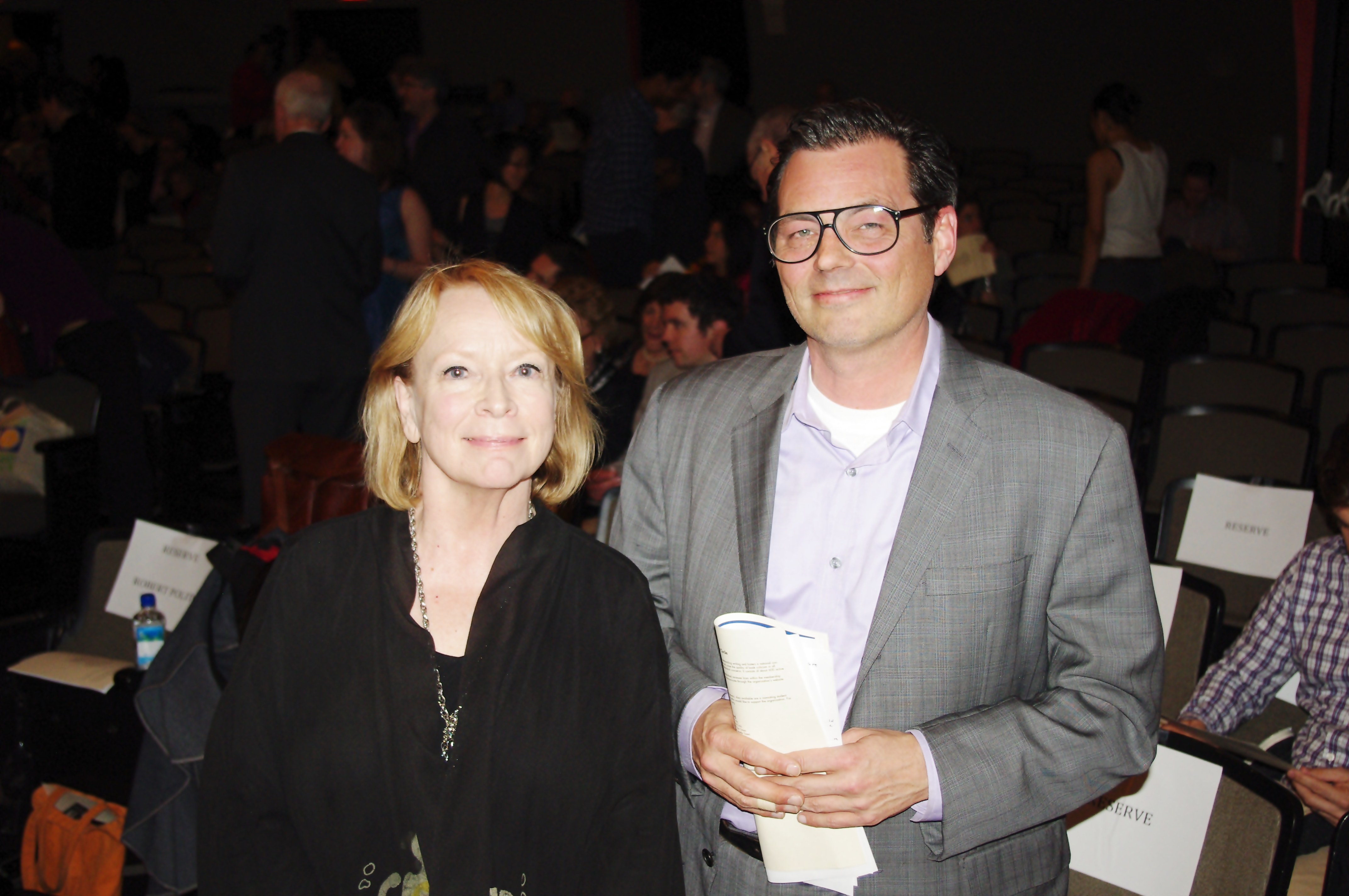 National Book Critics Circle past president Jane Ciabattari and current president Eric Banks at the National Book Critics Circle Awards for the 2011 publishing year.